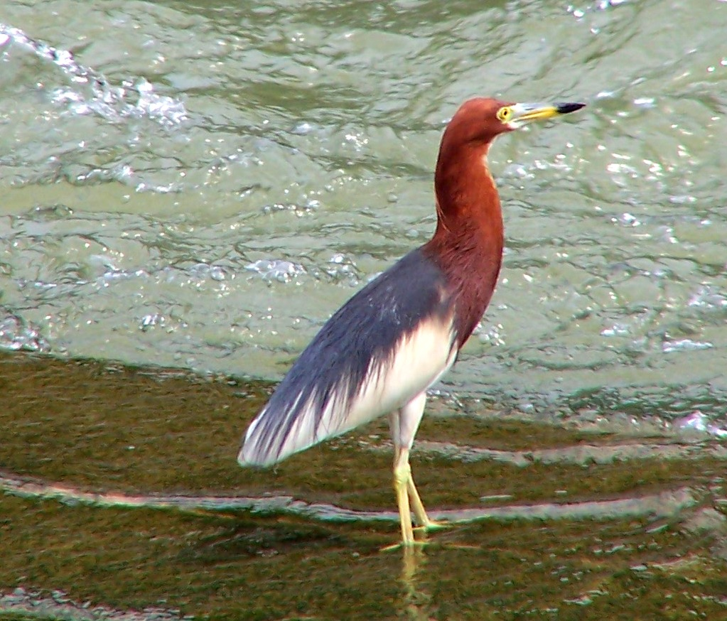 Chinese Pond Heron Ardeola bacchus, summer, Hong Kong